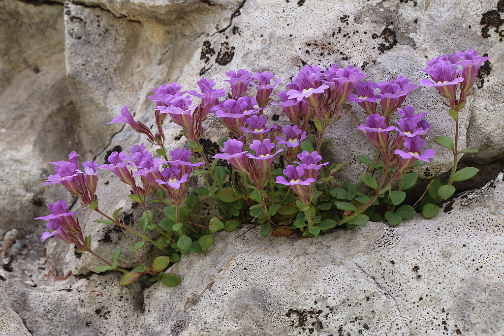 Chaenorrhinum origanifolium, La Pierre Saint-Martin, France